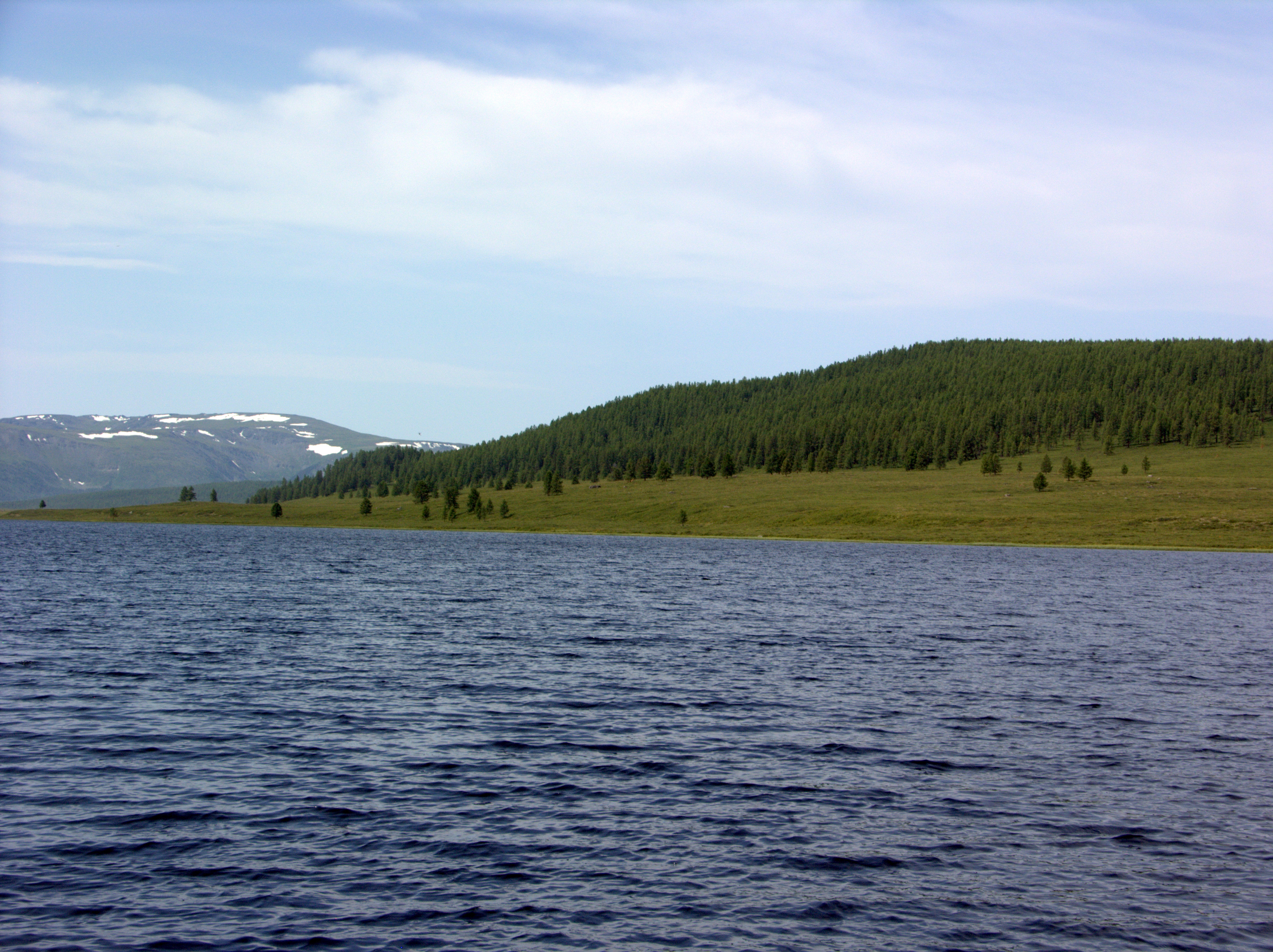 Uzun-Kol lake